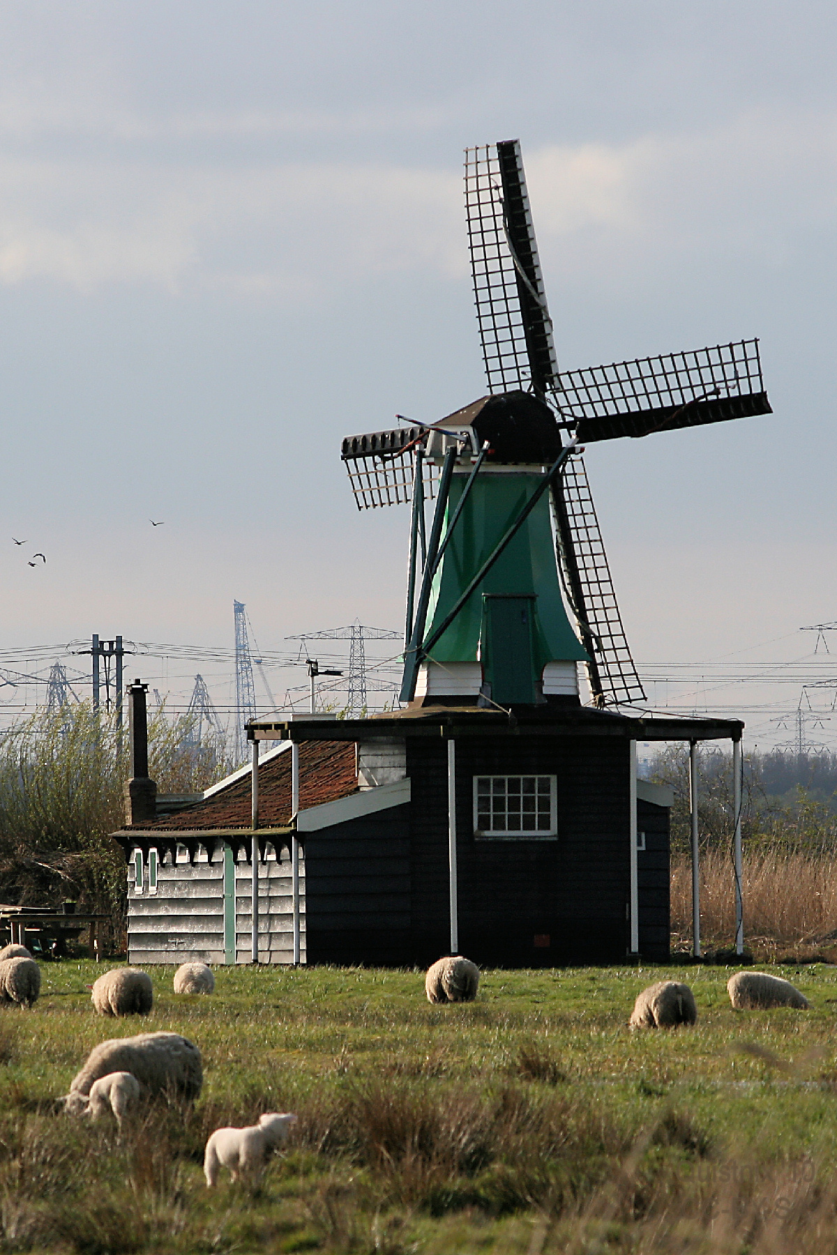 Oostzaan - windmill "De Windjager"